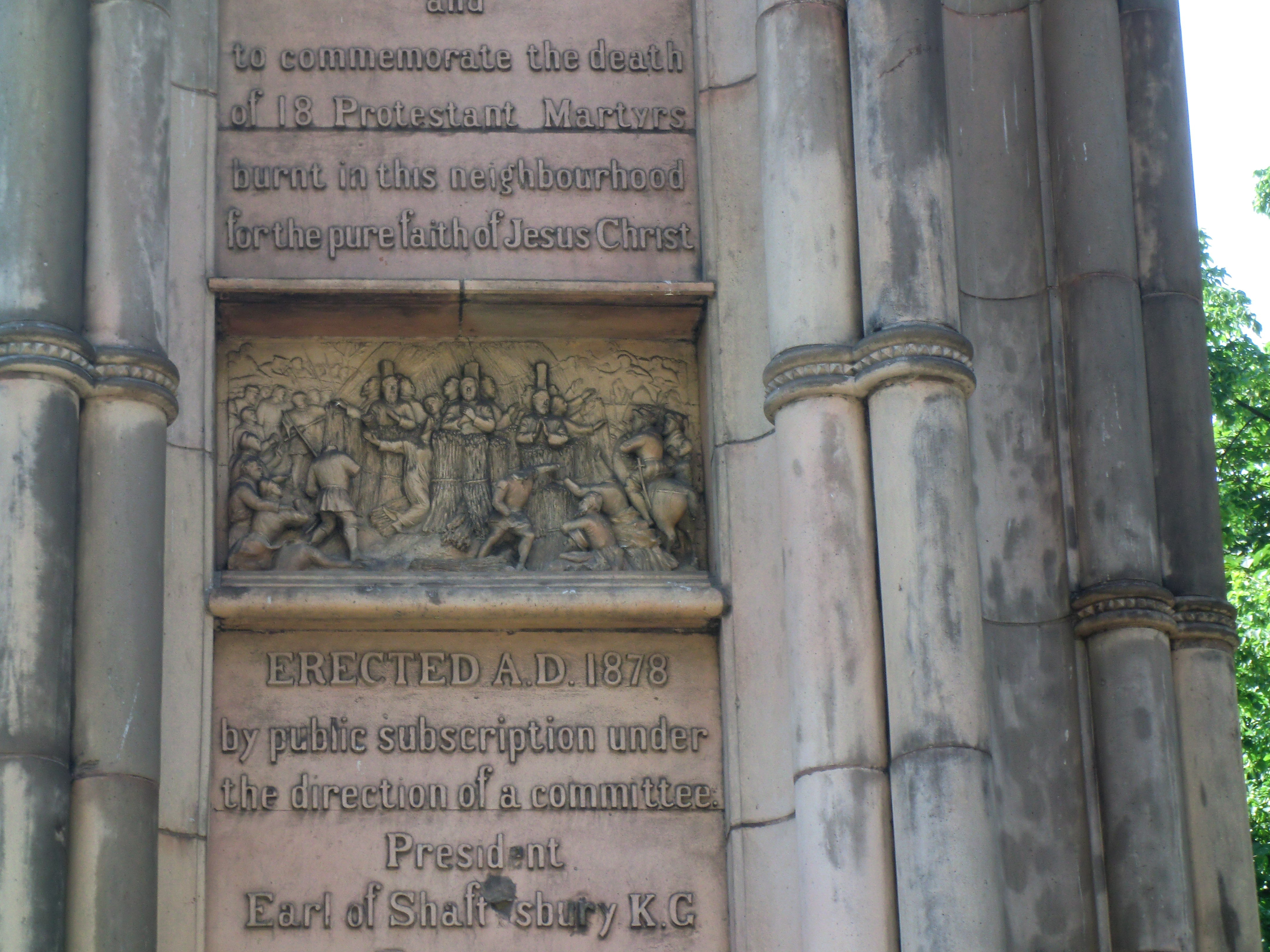 Stratford Martyers Memorial, London